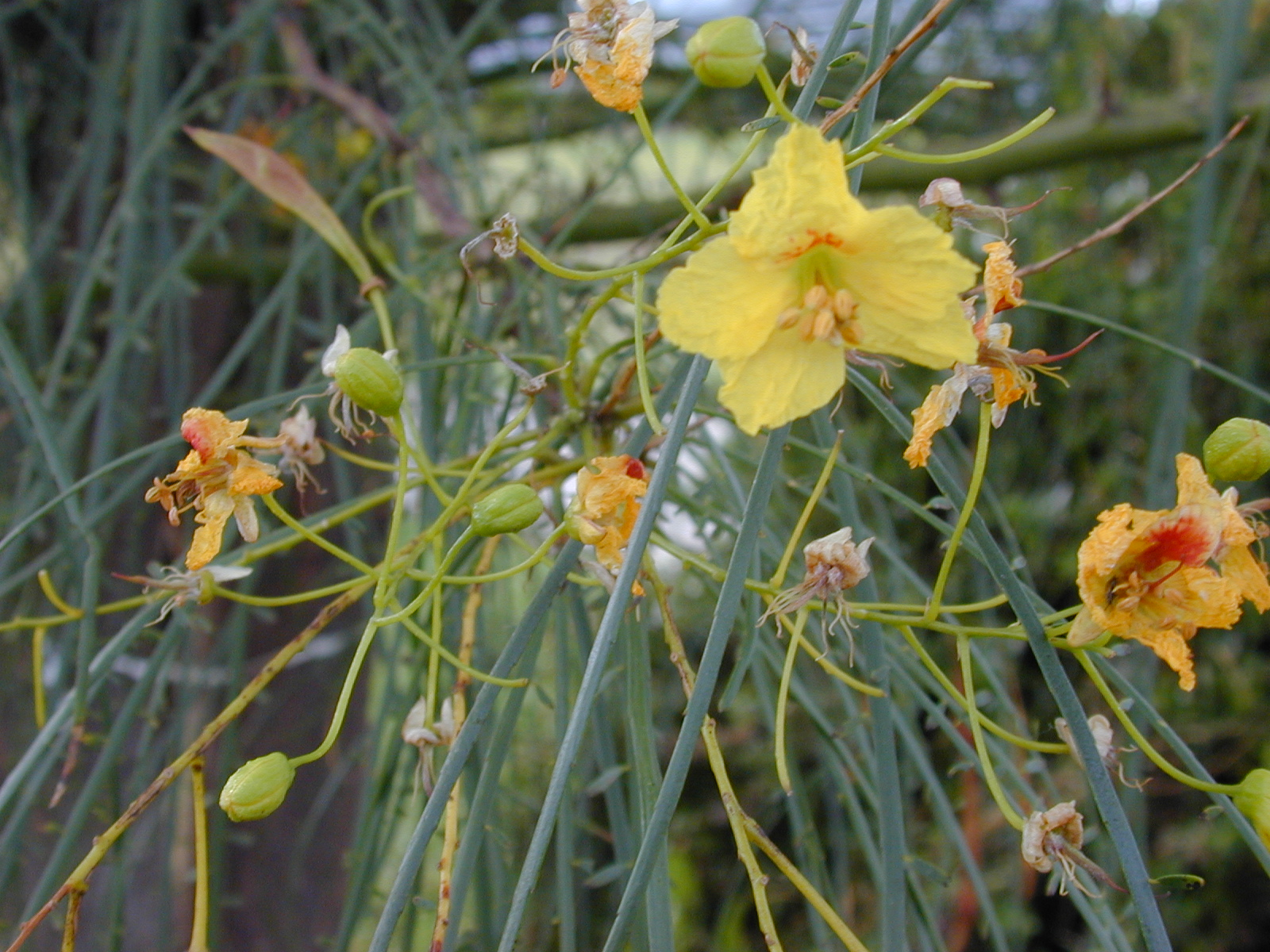 Parkinsonia aculeata (flowers). Location: Maui, Naalae Rd Kula